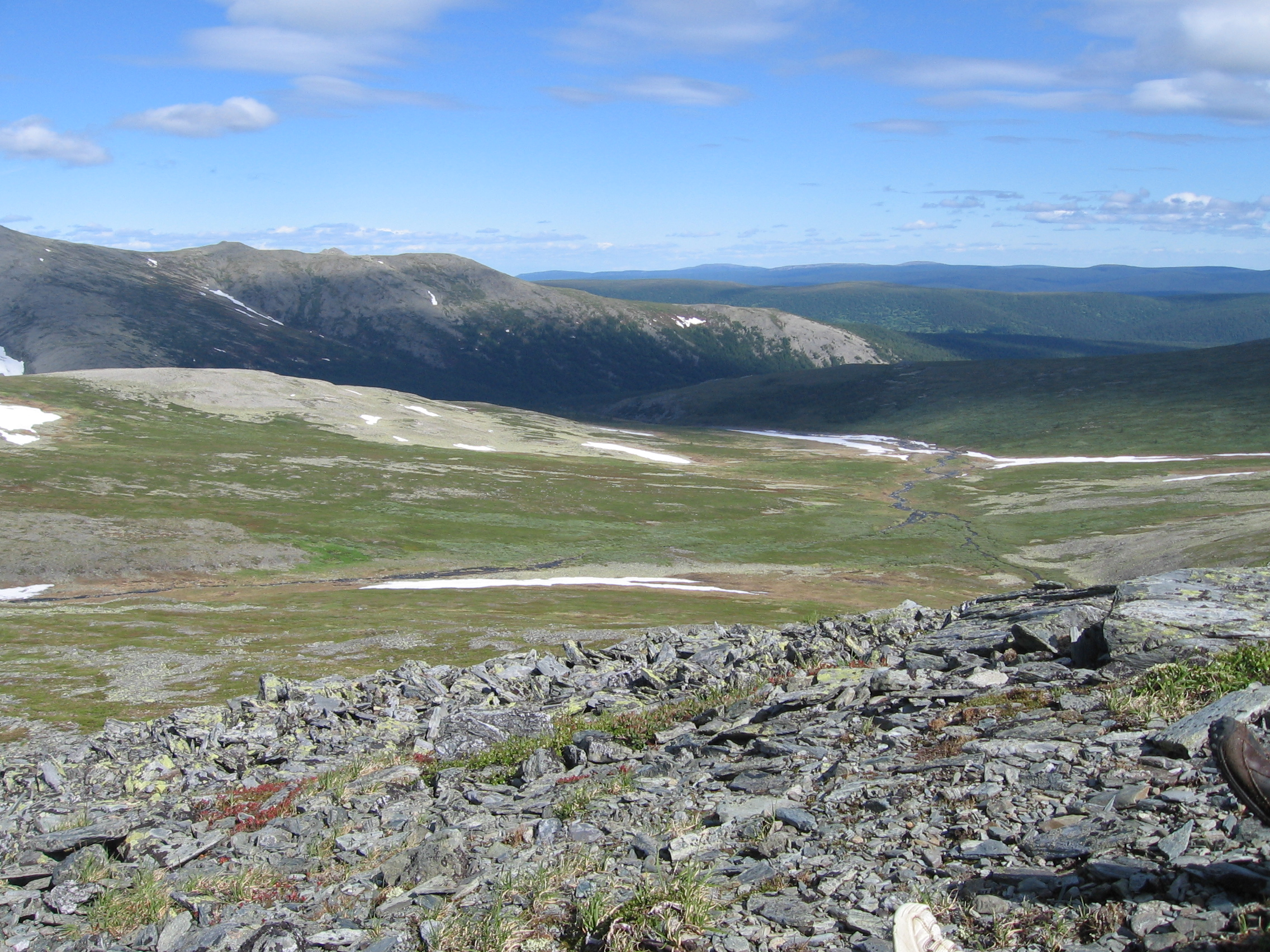 Mountain landscape in the Circumpolar Urals, Berezovsky, Khantia-Mansia, RussiaNorthern power